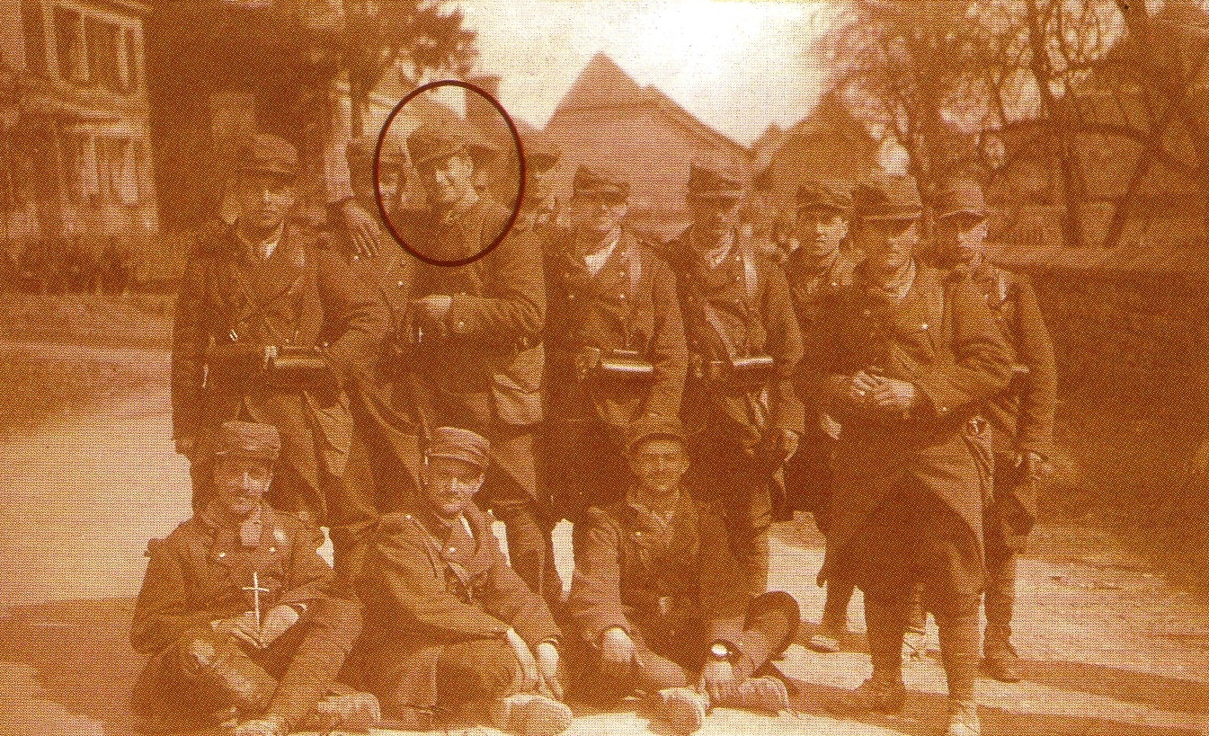 Maurice Chevalier with some military comrades.